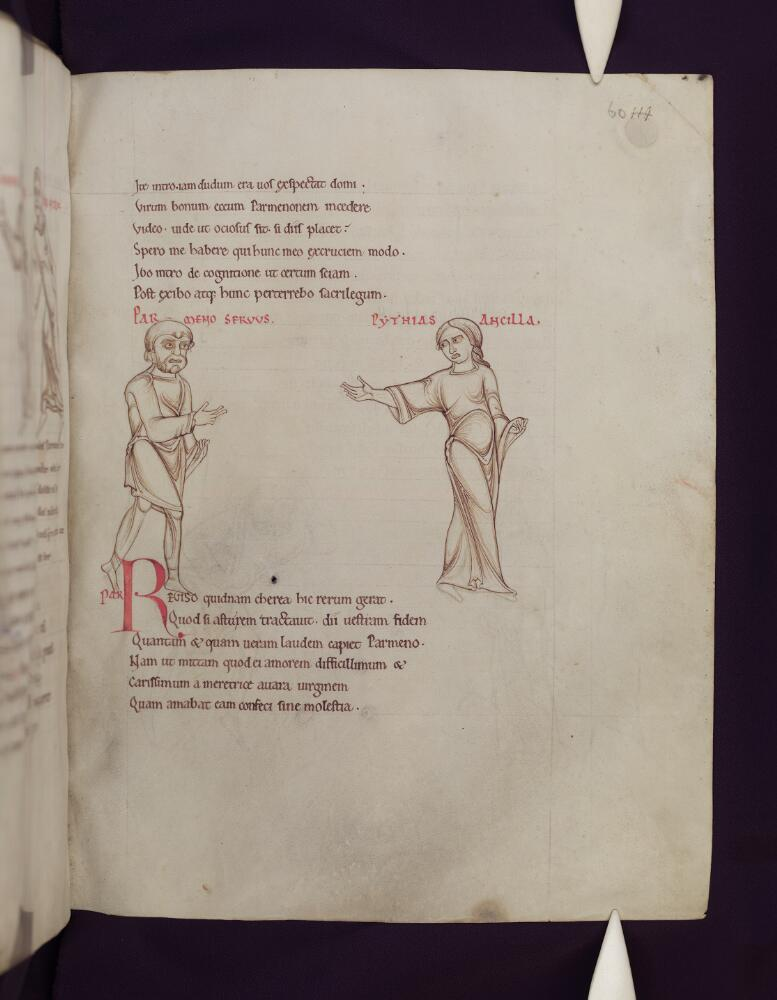 Terence's Comedies, in Latin, with Romanesque drawings comprising the latest version of the Late Antique cycle of scene-illustrations, St. Albans Abbey, mid 12th century. The first of the four artists (fols. 2v-17v) is identifiabl e as 'The Master of the Apocrypha Drawings' in the Winchester Bible. The illustrations for Andria V.1-2 at fol. 28r-v are missing in the Caroli ngian witnesses.; 60r